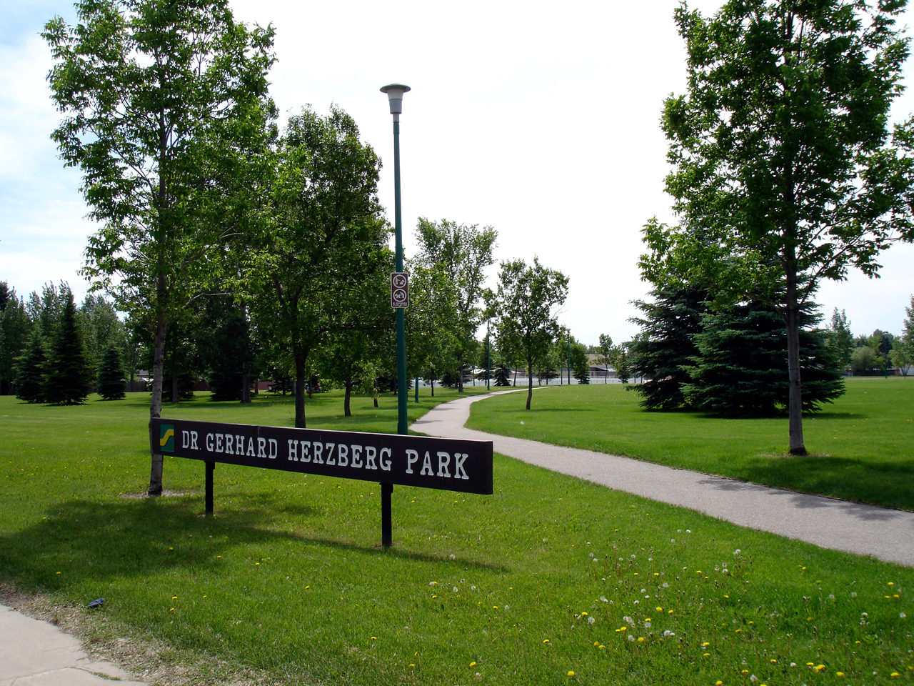 Dr. Gerhard Herzberg Park, a public park in the College Park subdivision of Saskatoon, Saskatchewan, Canada.